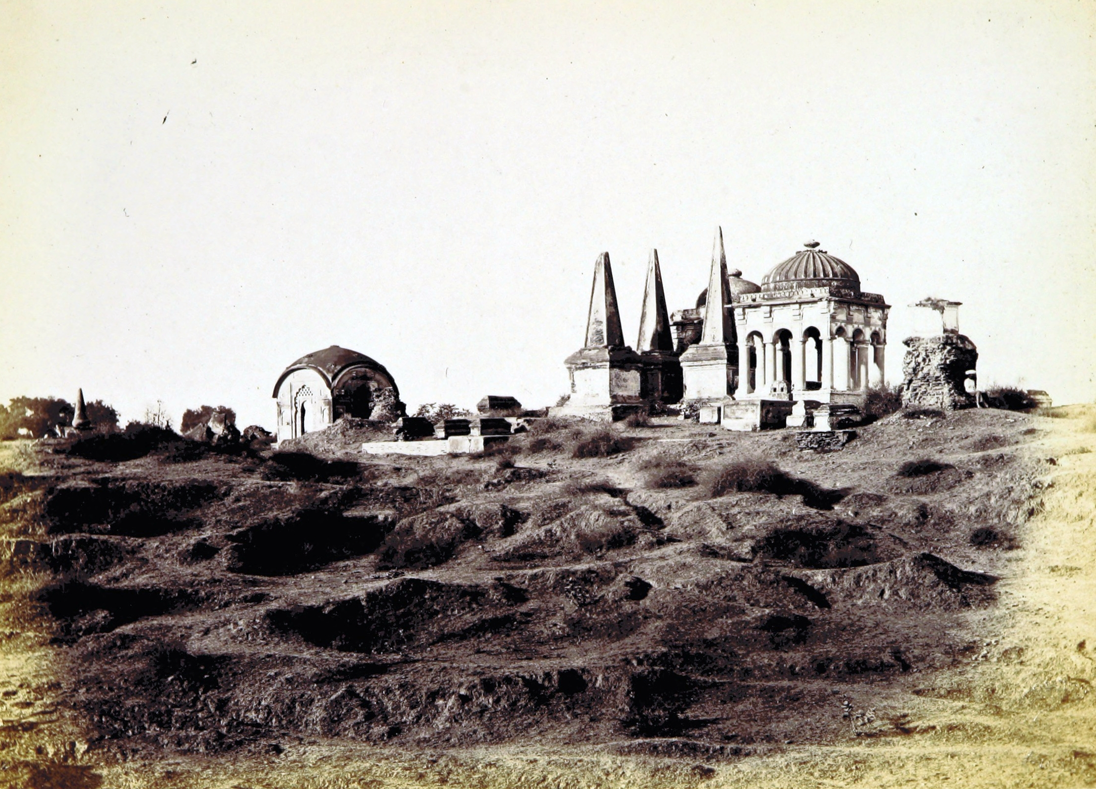 Image taken from: Title: "Architecture at Ahmedabad, the Capital of Goozerat, photographed by Colonel Biggs, ... With an historical and descriptive sketch, by T. C. H., ... and architectural notes by J. Fergusson, etc" Author: HOPE, Theodore Cracraft - Sir, K.C.S.I Contributor: BIGGS, Thomas. Contributor: FERGUSSON, James - Architect Shelfmark: "British Library HMNTS 10057.f.17.", "British Library OC V 6665" Page: 355 Place of Publishing: London Date of Publishing: 1866 Issuance: monographic Identifier: 001730119 Note: The colours, contrast and appearance of these illustrations are unlikely to be true to life. They are derived from scanned images that have been enhanced for machine interpretation and have been altered from their originals. If you wish to purchase a high quality copy of the page that this image is drawn from, please order it here. Please note that you will need to enter details from the above list - such as the shelfmark, the page, the book's volume and so on - when filling out your order. Following this or the link above will take you to the British Library's integrated catalogue. You will be able to download a PDF of the book this image is taken from, as well as view the pages up close with the 'itemViewer'. Click on the 'related items' to search for the electronic version of this work. Click here to see all the illustrations in this book and click here to browse other illustrations published in books in the same year. Please click on the tags shown on the right-hand side for other ways to browse the illustrations.